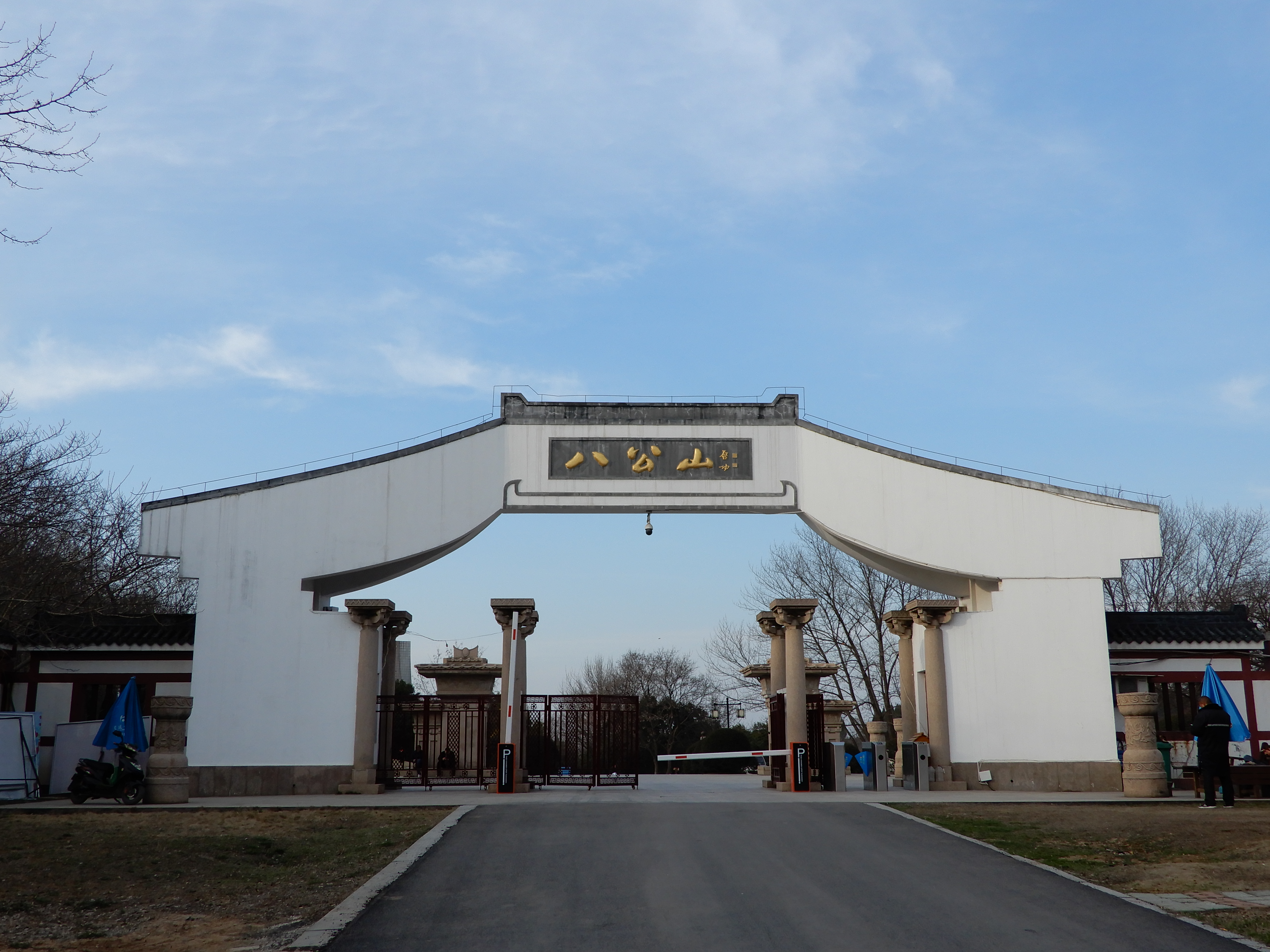 Gate of Bagong Mountain Park